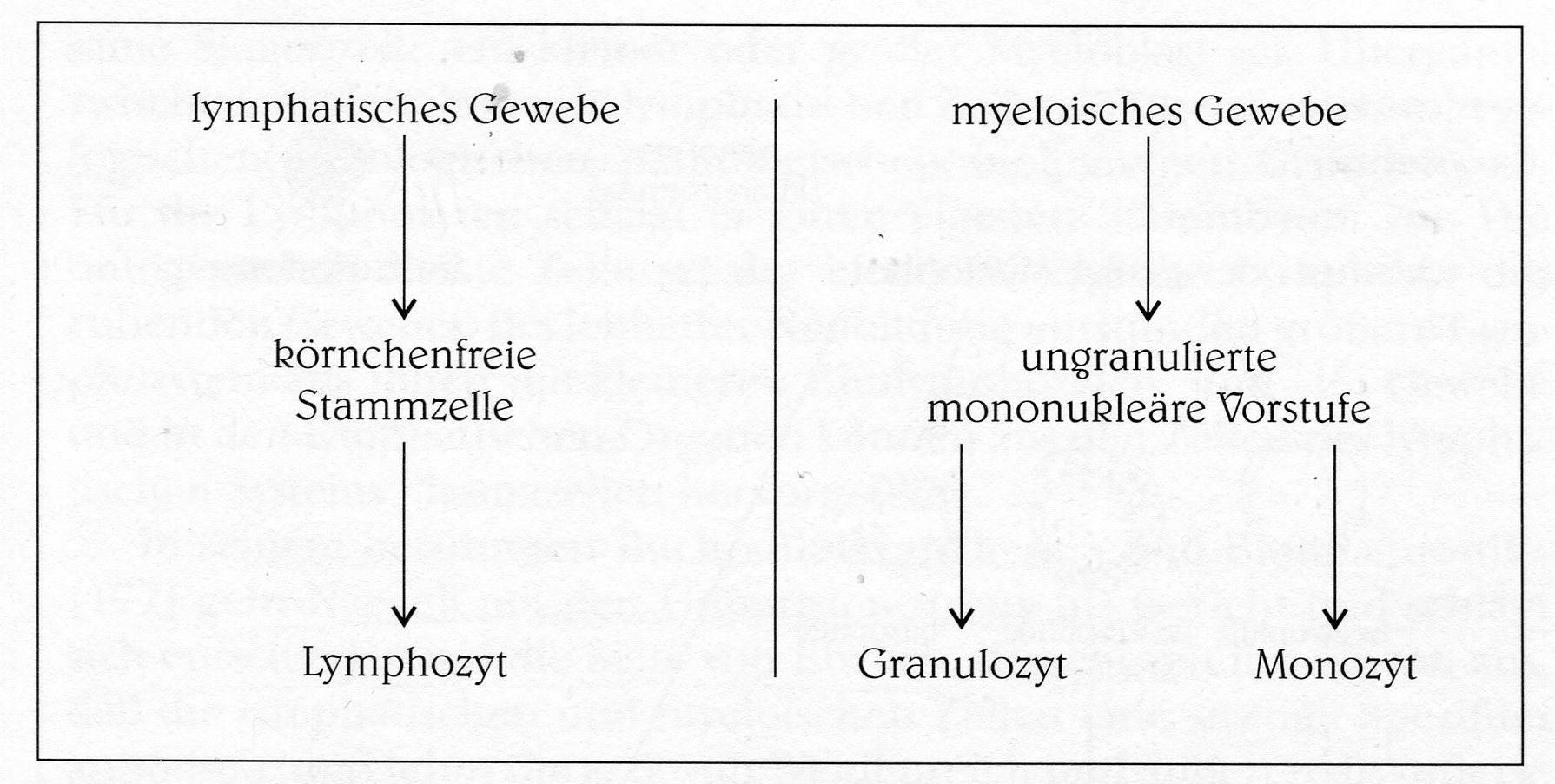 The history of the Haematopoetic Stem Cell dates back to the 19. Century. There was as misunderstanding beween Unitarians (one stem cell for all bloodcell-lines) and Dualists (only one stem cell for all lines). The chart shows the dualist-meaning of P. Ehrlich.